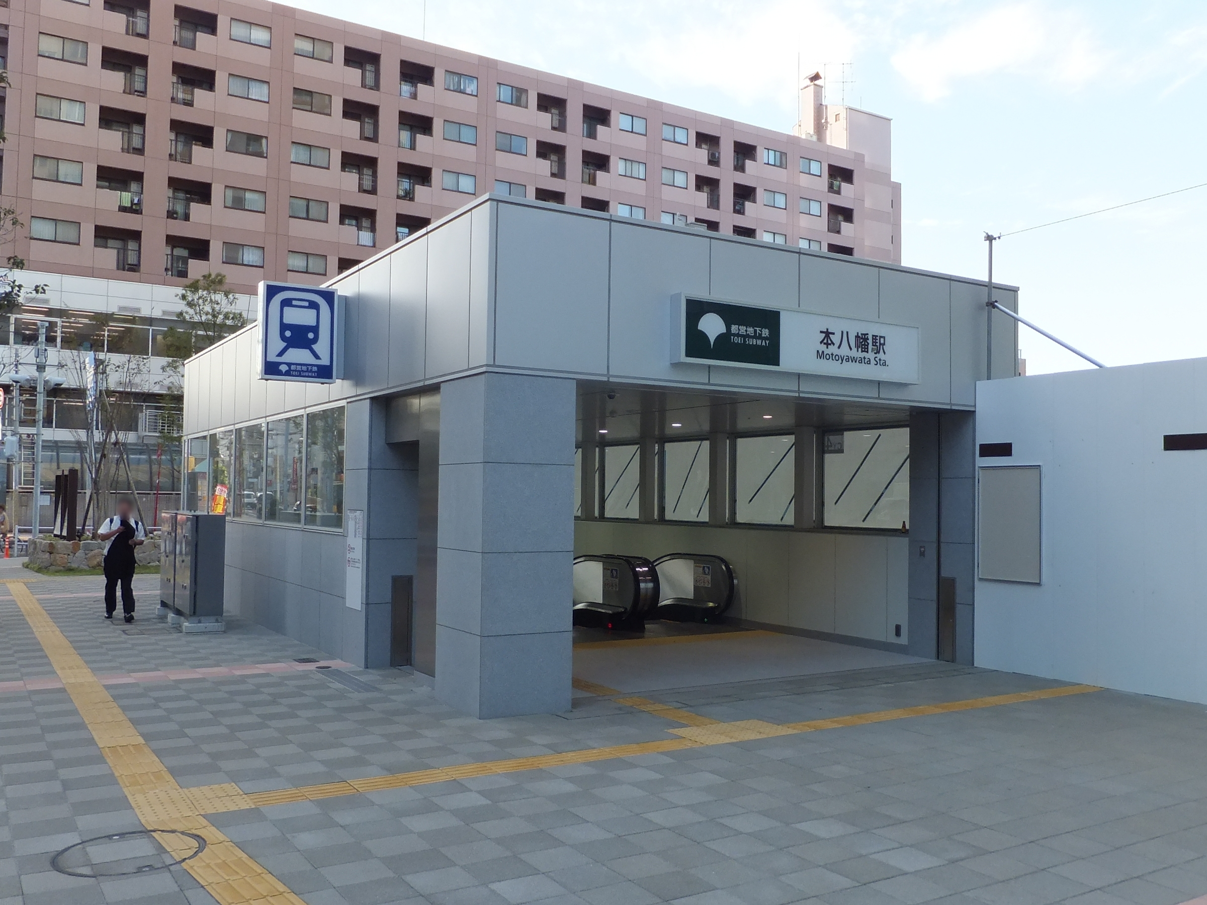 Motoyawata Station operated by the Toei Subway, in Ichikawa, Chiba, Japan